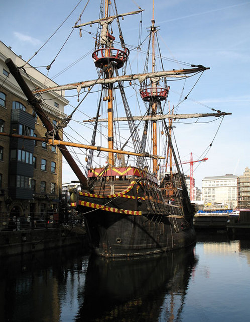 The Golden Hinde A replica of Sir Francis Drake's ship, now berthed as a floating museum in St.Mary Overie Dock, near to Southwark Cathedral.